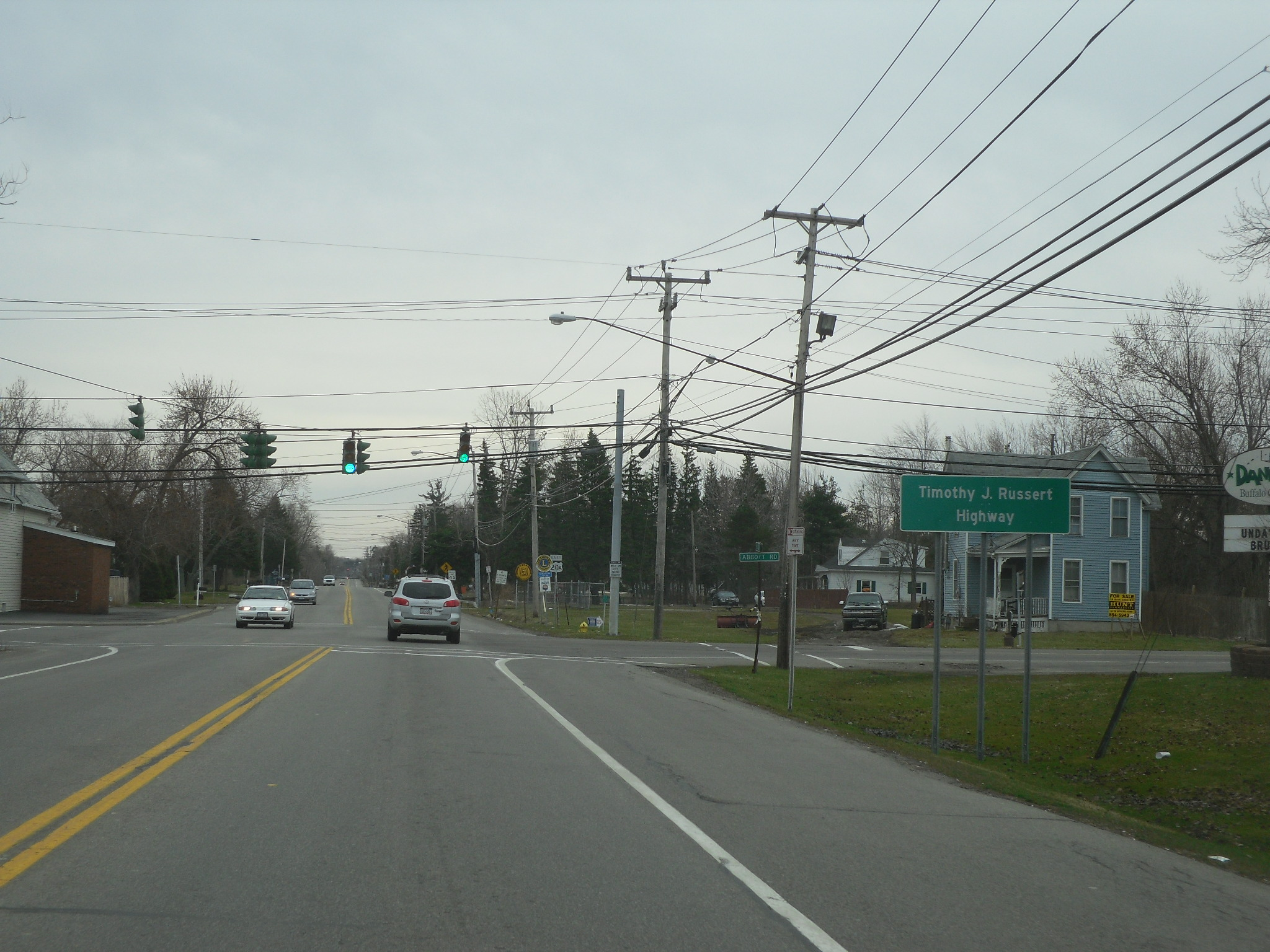 Sign on U.S. Route 20A in Orchard Park, New York, marking the road as the "Timothy J. Russert Highway". The designation was assigned to part of US 20A in 2008 in memory of the late Tim Russert, a Buffalo native.